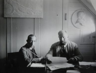 Gottfrid Larsson and Edward Berggren at their art school nearby Karlaplan in Stockholm, 1924.